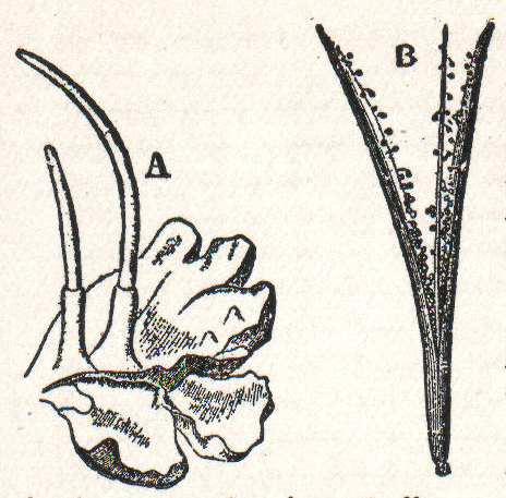 Anthoceros